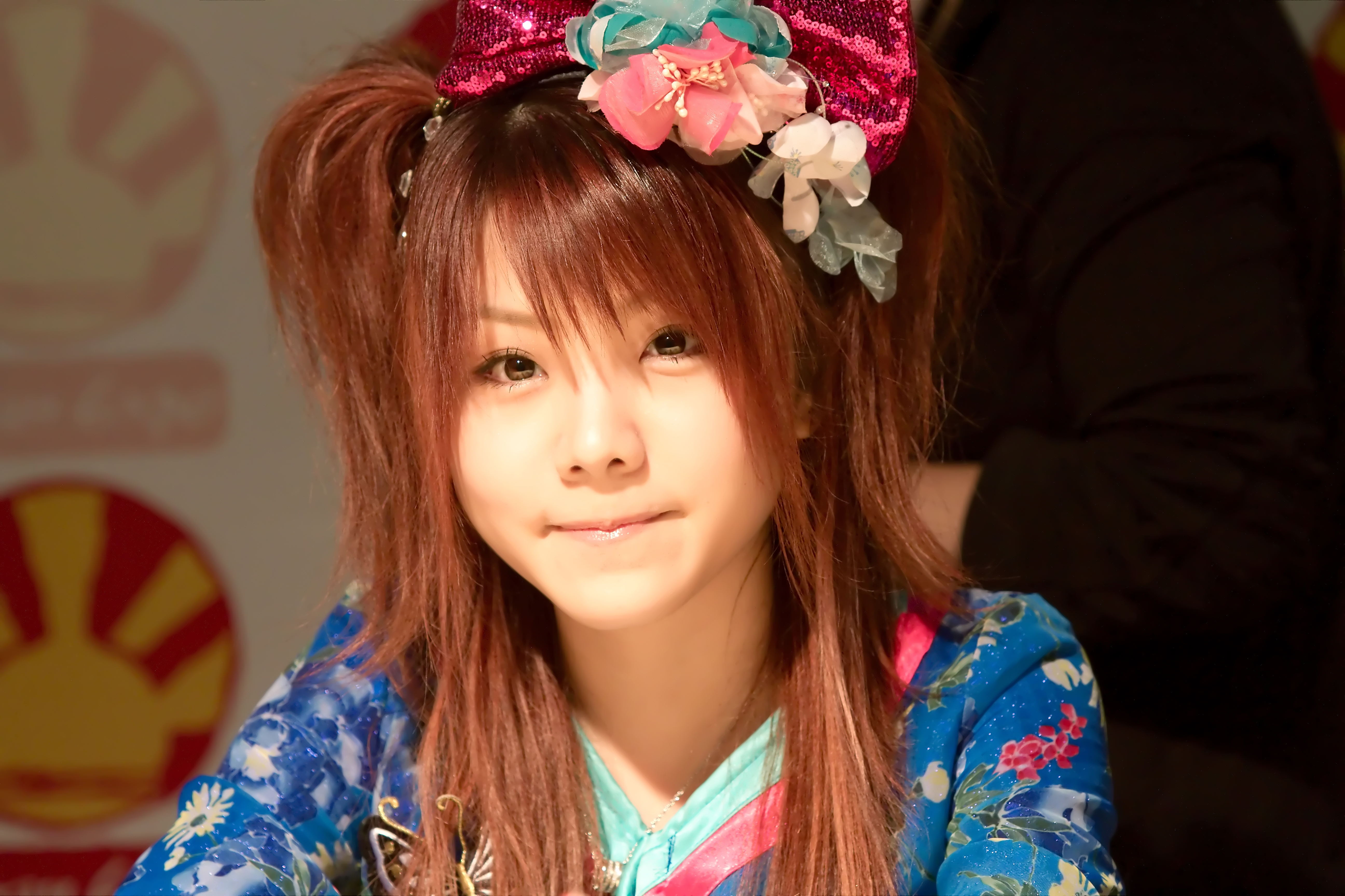 Reina Tanaka of Morning Musume during autograph session at Japan Expo, Sunday, July 03, 2010 (Paris, France).